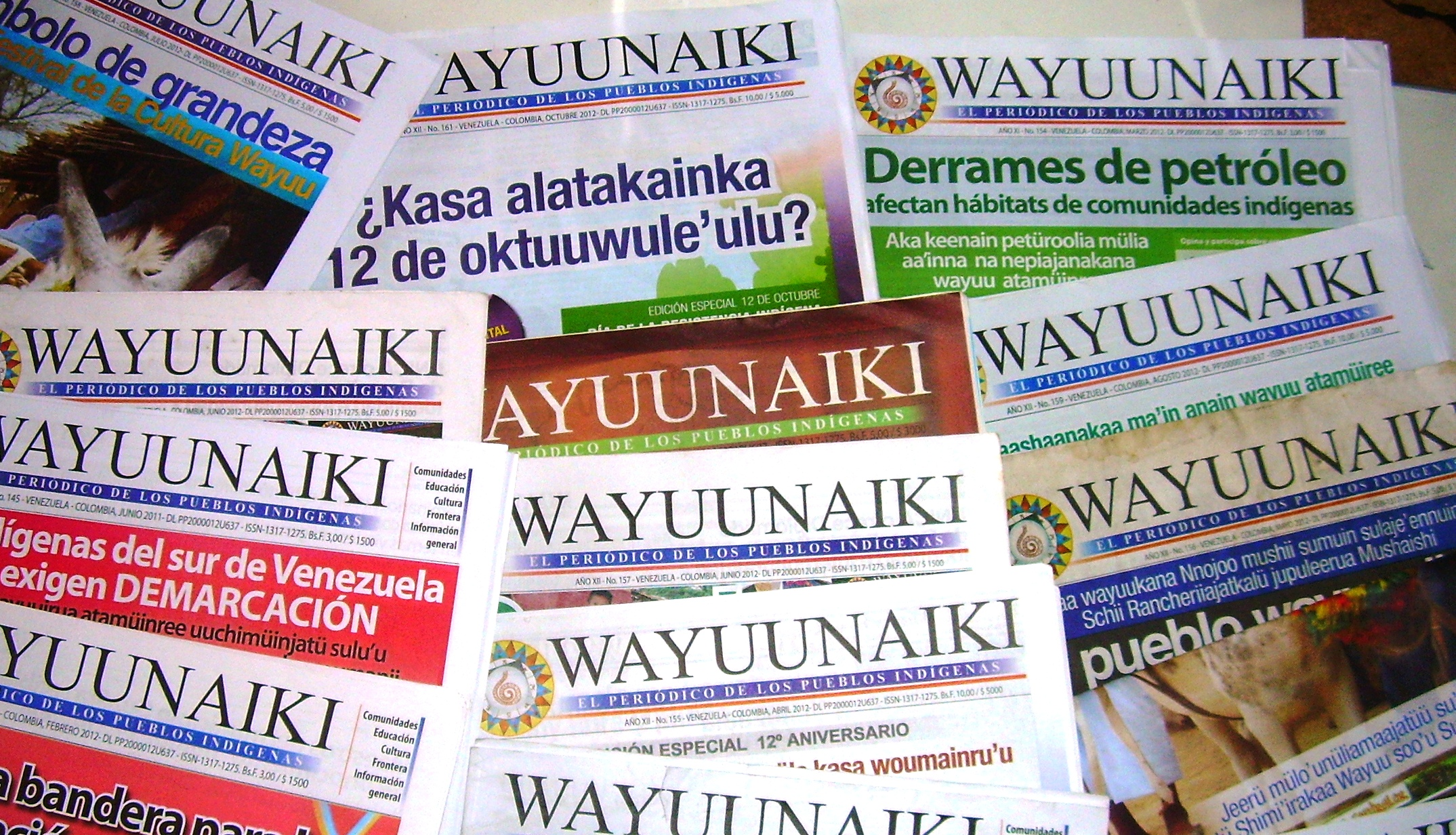 A bunch of copies of the indigenous newspaper "Wayuunaiki" published throughout several yearsLadino: Kopias del djurnal aborijinalo "Wayuunaiki" publikadas a traverso de varias anyadas